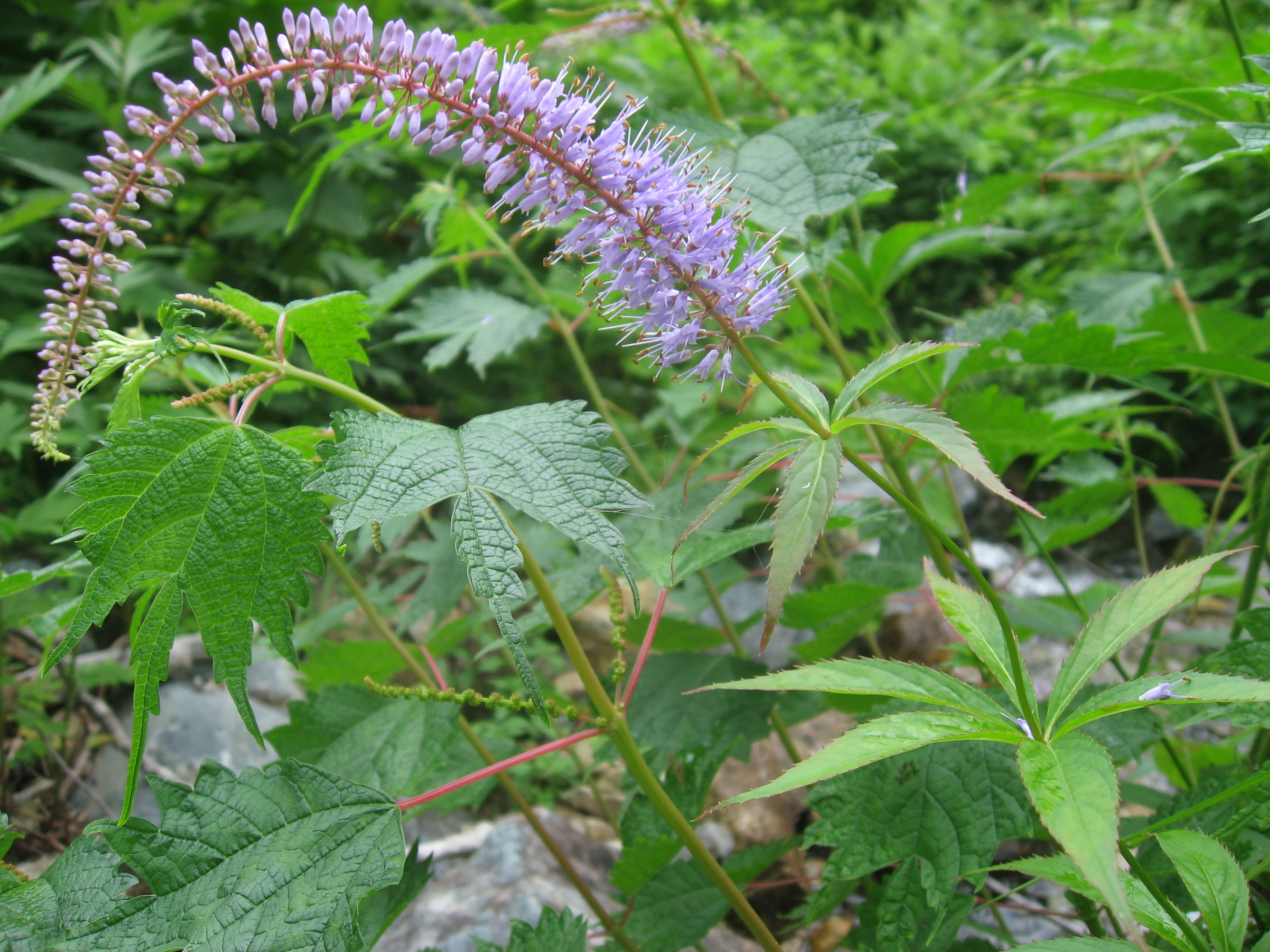 Veronicastrum japonicum, Mt. Aizu-Asahi-dake, Fukushima pref., Japan